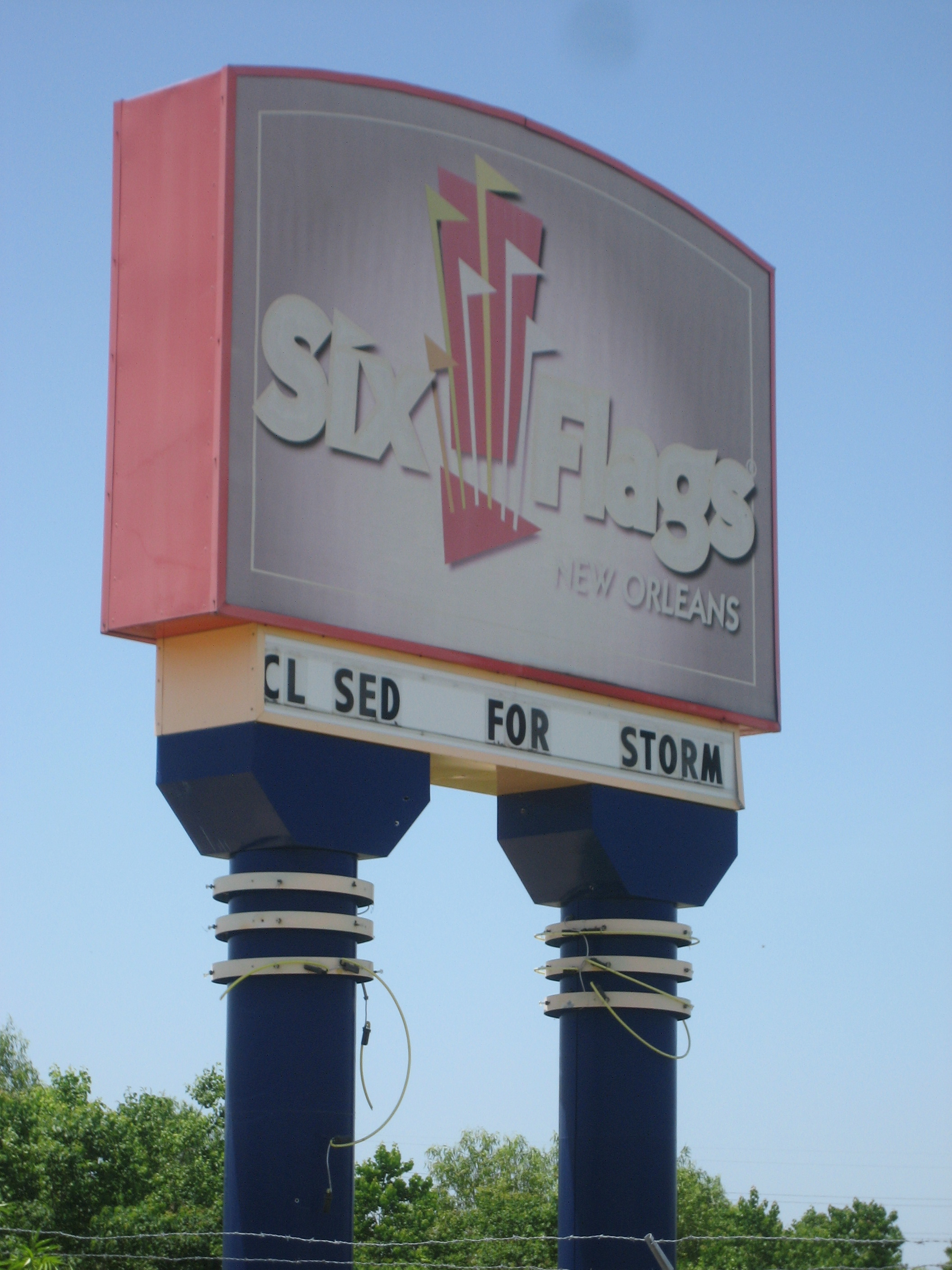 Six Flags New Orleans. Amusement park in Eastern New Orleans, closed since damage in the levee failure disaster during Hurricane Katrina in 2005.